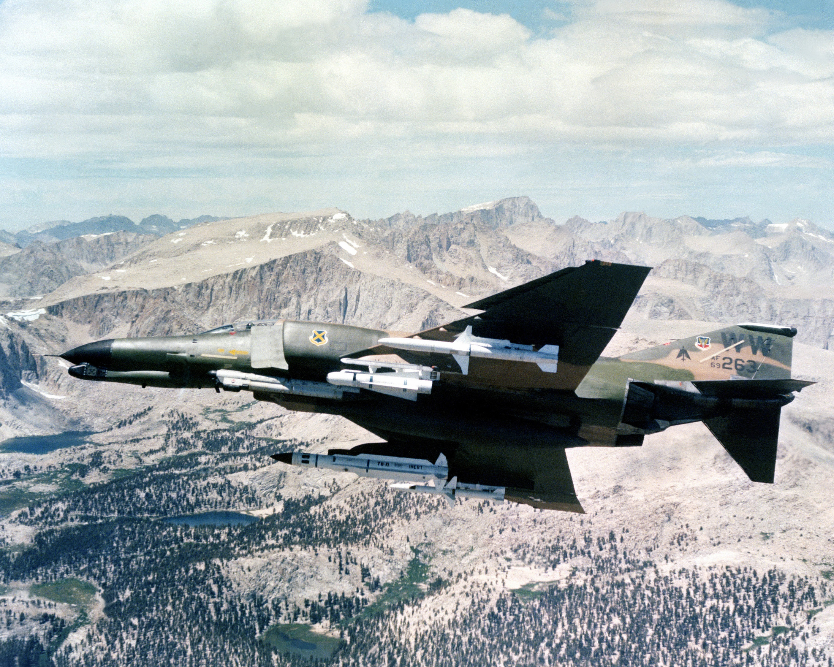 An F-4G Phantom II aircraft shows its undercarriage holding four different missiles: one each AGM-45, AGM-65, AGM-78, and AGM-88.